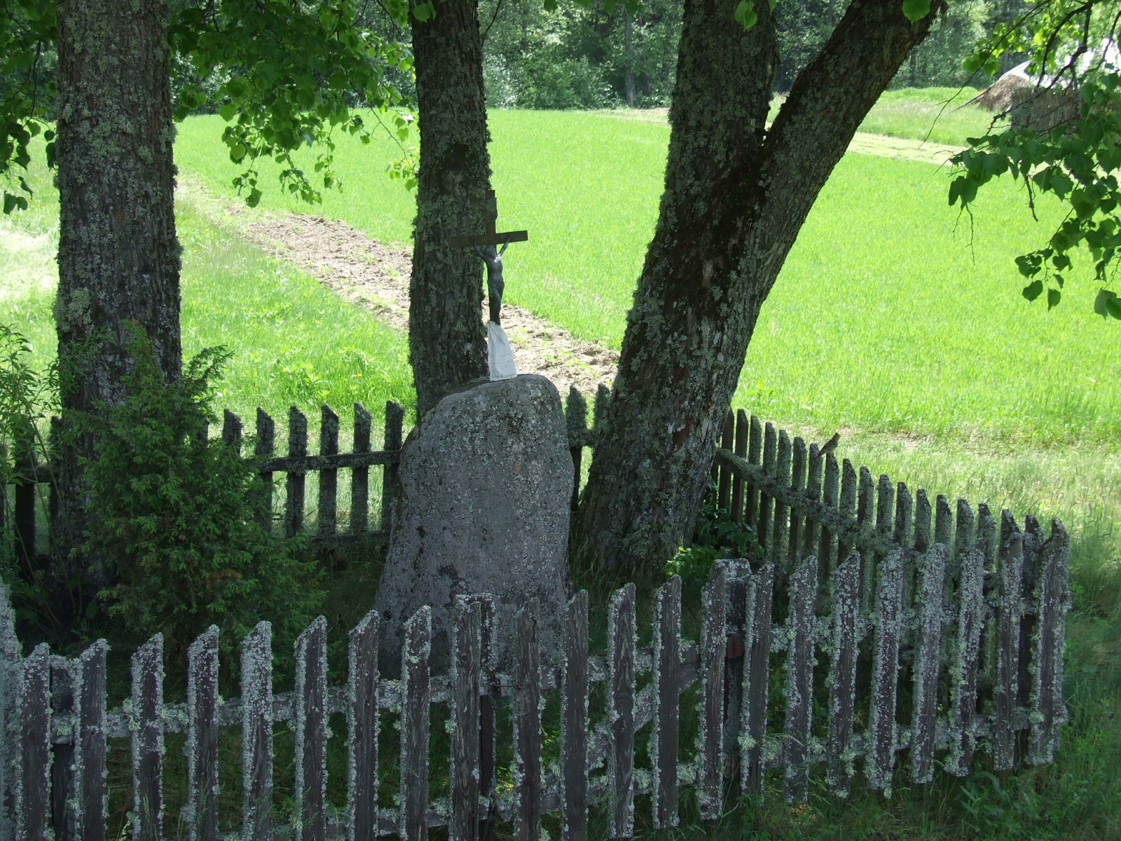 Stone "Užkeikta merga"